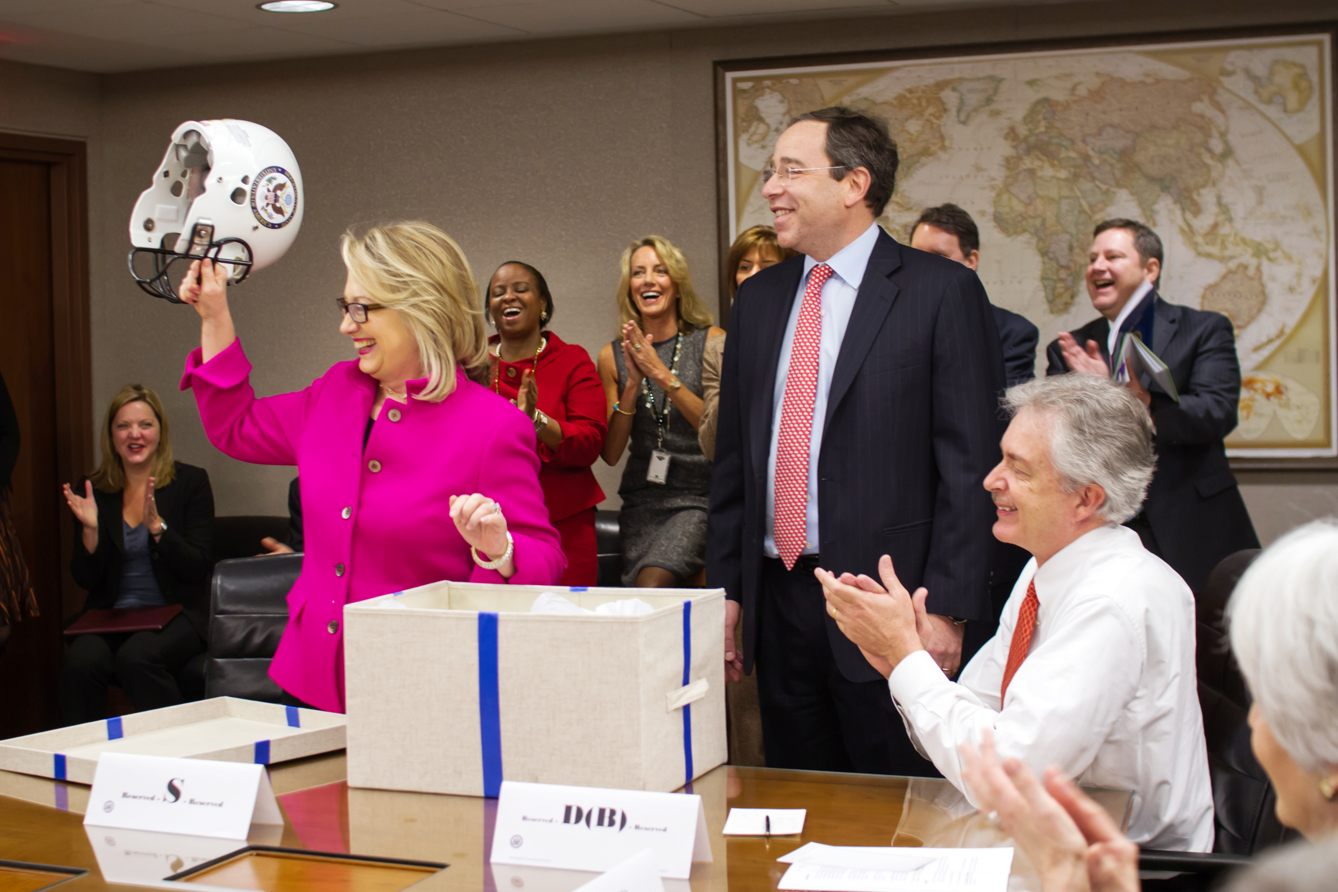 United States Secretary of State Hillary Clinton, returning to work following illness and a head injury, is presented with a football helmet by the State Department's senior leadership in Washington, D.C. on 7 January 2013.